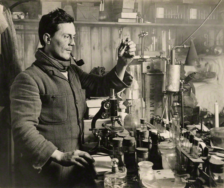 Dr Edward Atkinson in his lab, during the Terra Nova Expedition 1910-1913 under command of Robert Falcon Scott